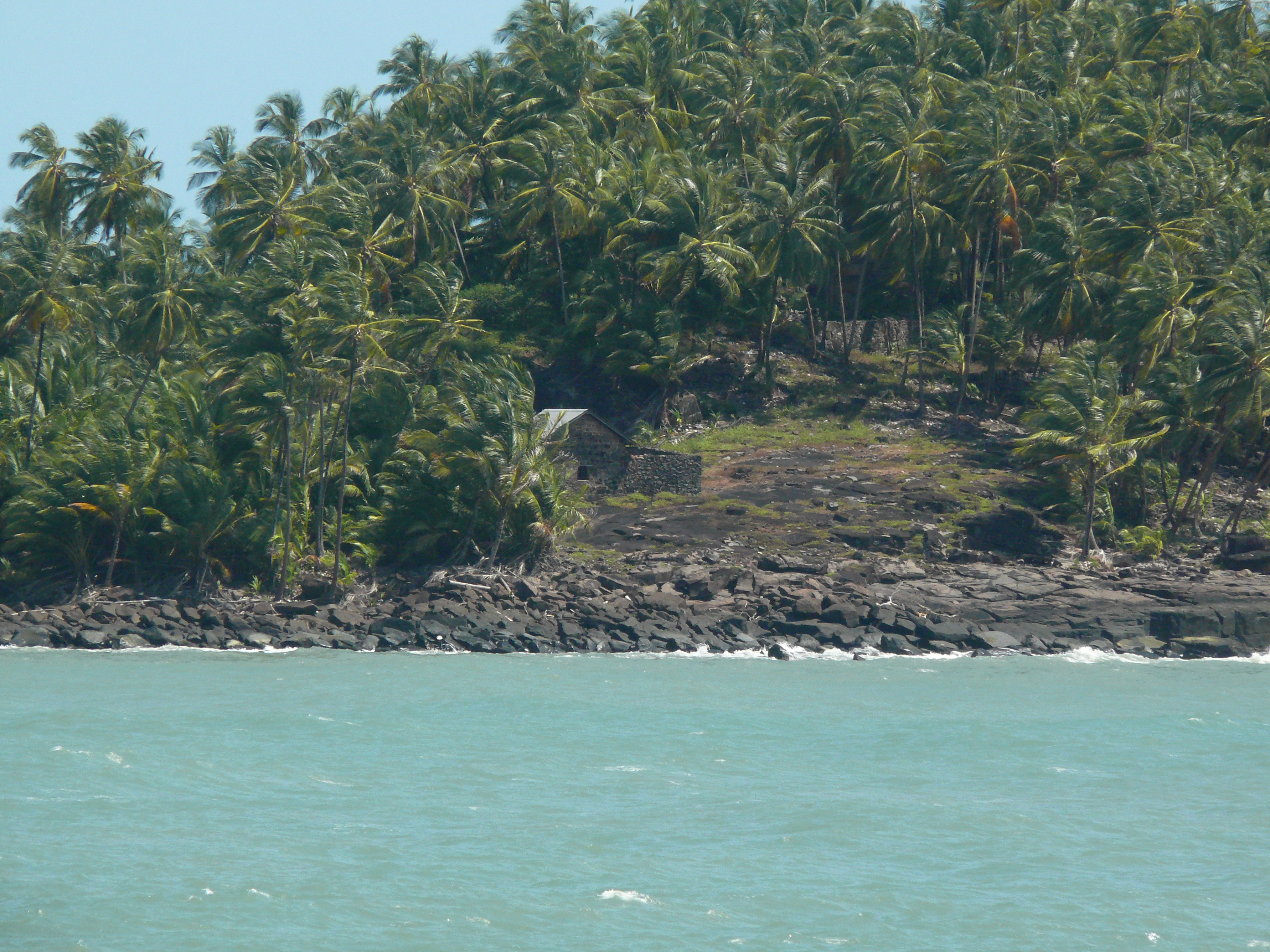 First and second homes of Alfred Dreyfus during his stay on Devil's Island. The first one is the one nearest the shore (its surrounding wall partly in ruins), and the second one is further up the hill, partly hidden by the vegetation. Photo taken from Saint Joseph's Island as Devil's Island is strictly off-limits.